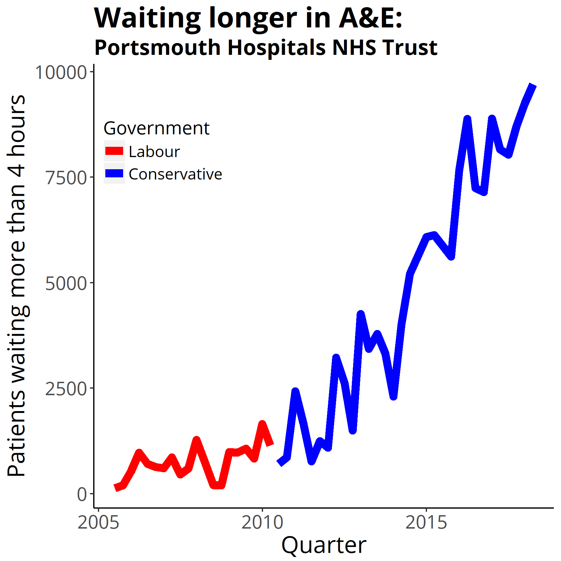 Four-hour target in the emergency department quarterly figures from NHS England Data from